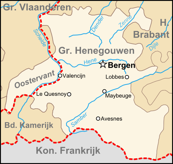 Topographic map of the County of Hainaut in the late 14th centry.